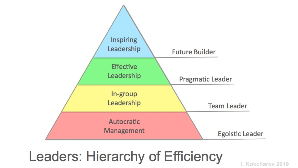 Leadership analysis Inspired by Hierarchy of Competency and M5 Work Motivation Model